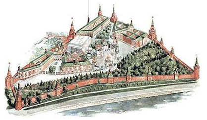 Overview map of the Moscow Kremlin. Location of The Church of the Deposition of the Virgin’s Robe in Vlachernon marked.